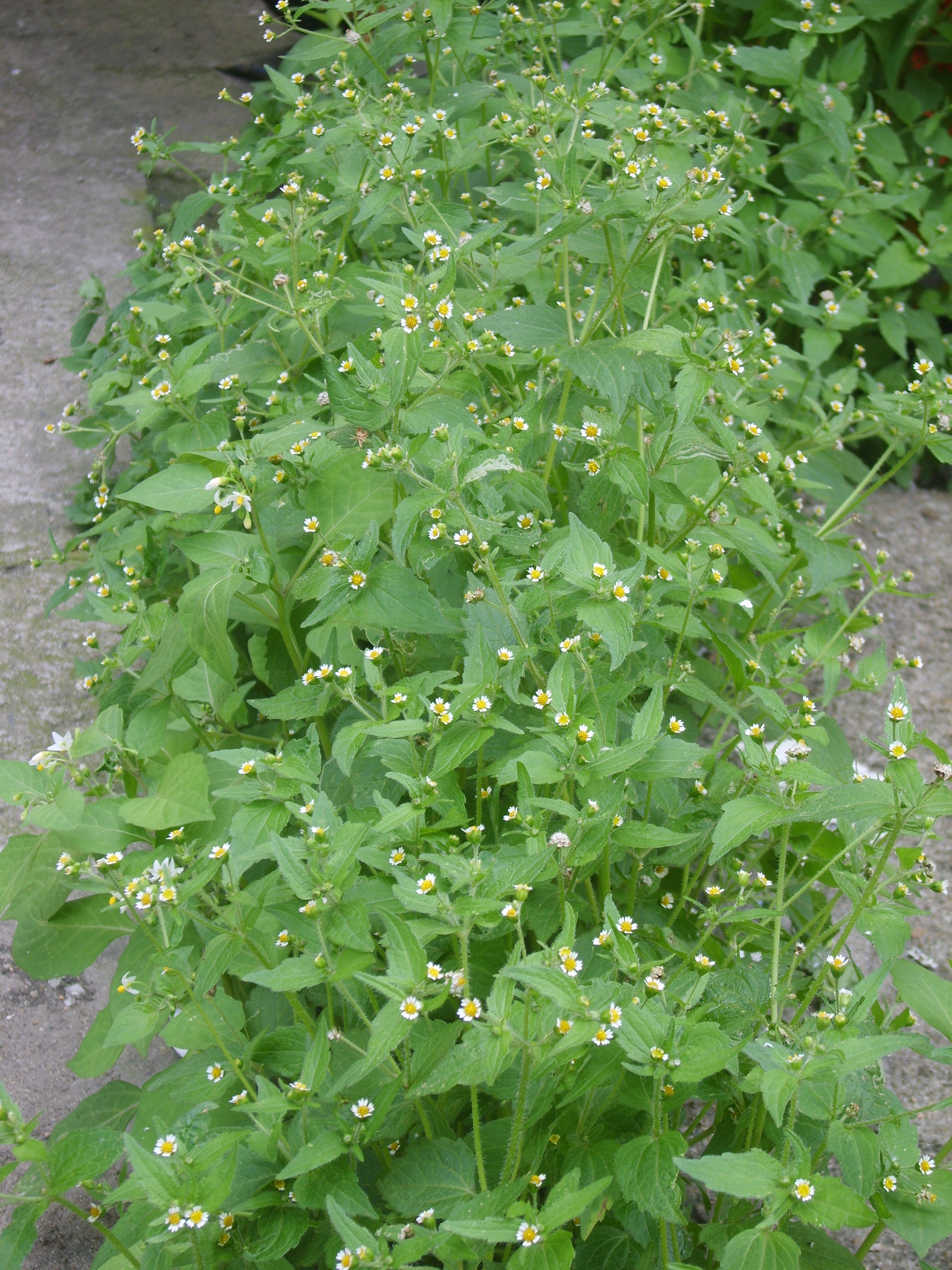 Galinsoga quadriradiata in Bupyung, Korea